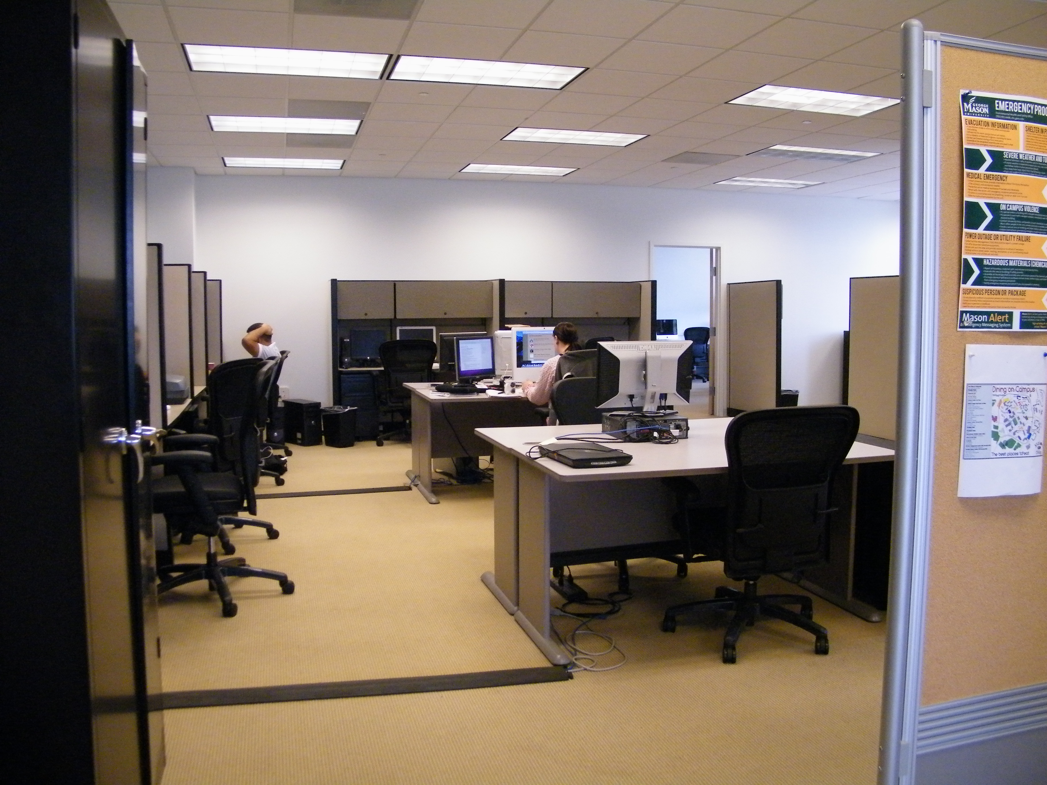 Roy Rosenzweig Center for History and New Media